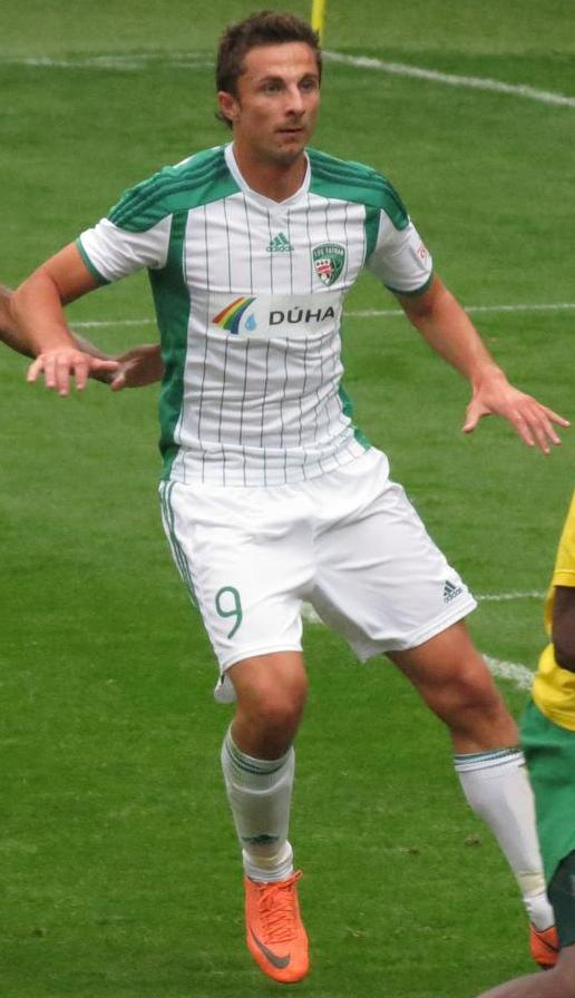 Photo - Slovak footballer Jaroslav Kolbas